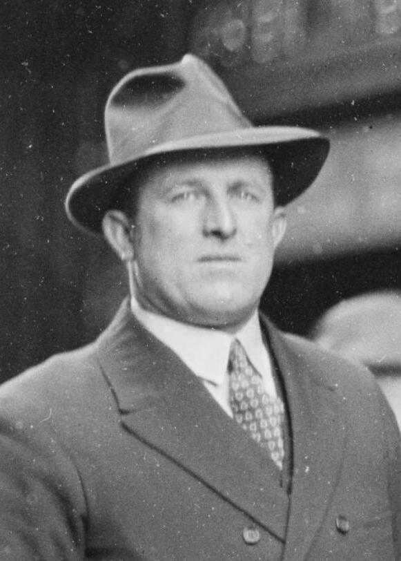 Delegates to the 1933 ALP Federal Conference in Sydney: John Madden (Tasmania) Bill Colbourne (New South Wales) Gordon Brown (Queensland) Arthur Calwell (Victoria) William Forgan Smith (Queensland)